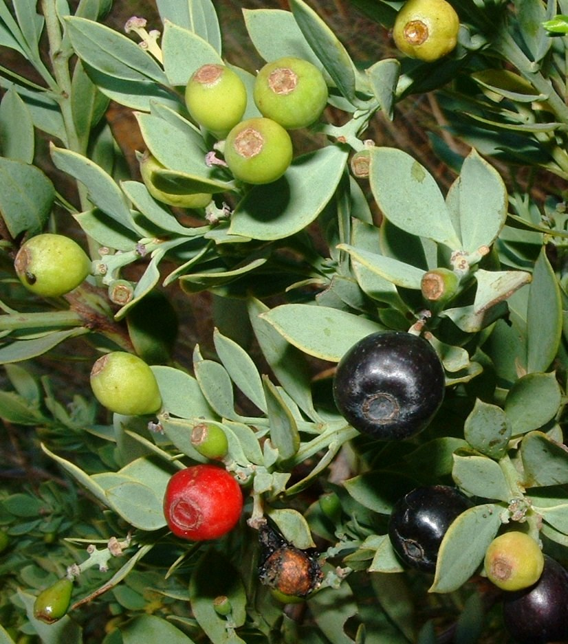 Osyris compressa. The Cape Sumach. South African parasitic bush.